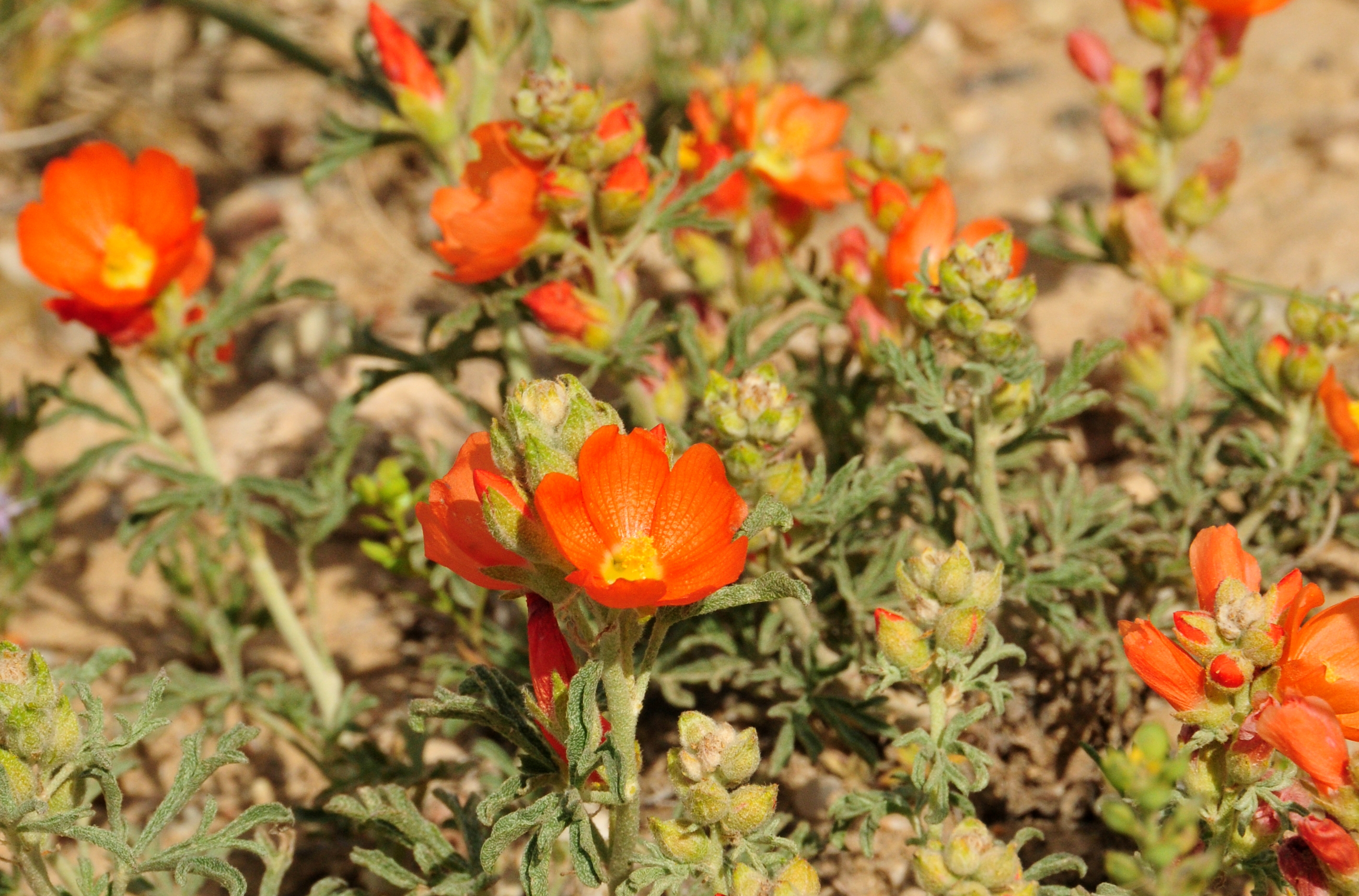 Scarlet globemallow is one of the most common wildflowers (forbs) in the sage-steppe habitat on and adjacent to Seedskadee NWR. In addition to being a hardy perennial forb, scarlet globemallow is memorialized in history as the last plant collected by Meriwether Lewis on the Lewis and Clark Expedition. Native Americans chewed scarlet globemallow and applied it as a paste to relieve the pain of burns and flesh wounds. This perennial forb, with a stout taproot, grows 3 to 18 inches in height, topped with deep orange or light pink to brick red flowers. Leaves are grayish-green and palmately lobed. Both the leaves and the several erect stems are covered with silver-gray hairs that reflect solar radiation and protect against drying. These hairs, along with its deep root system, make it very drought tolerant. Scarlet globemallow exhibits low seed germination due to a hard seed coat and reproduces mainly by rhizomes. The hard seed coat enables long-term seed viability in the seedbank. Seeds then germinate when conditions are occasionally favorable. Scarlet globemallow is eaten by almost all species of herbivores where it occurs and can be an important component of wildlife diets. It stabilizes the soil on disturbed areas through creeping rhizomes and proliferates until grasses out-compete it. Deep roots allow it to survive disking, fires, and grazing. When other species are eliminated, scarlet globemallow proliferates.Although scarlet globemallow is suppressed when grasses and shrubs begin growing, it will proliferate again once a disturbance occurs. This, along with its drought tolerance and soil stabilizing ability, make it a promising restoration species. Seeds are hard to collect, making them expensive, and the germination rate is very low. Photo: Tom Koerner/USFWS